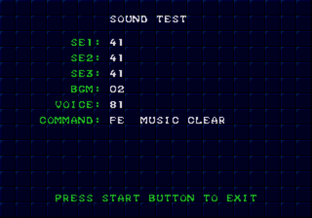 A screenshot of the hidden sound test menu from Dr. Robotnik's Mean Bean Machine for the Sega Genesis. It can only be accessed by switching the console's region to Japan while the game is running, using an emulator or hardware mod.